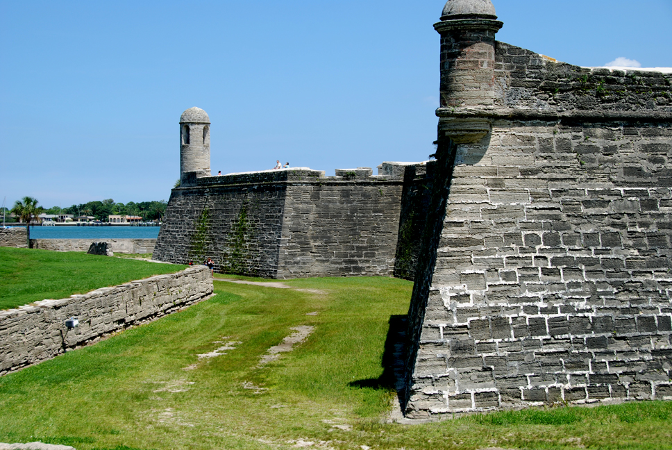 The north wall of the Castillo de San Marcos. Taken By Victor Patel